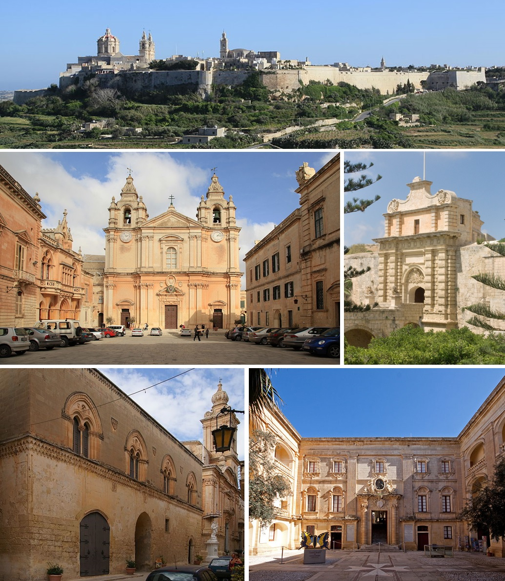 Montage of various landmarks in Mdina, Malta.